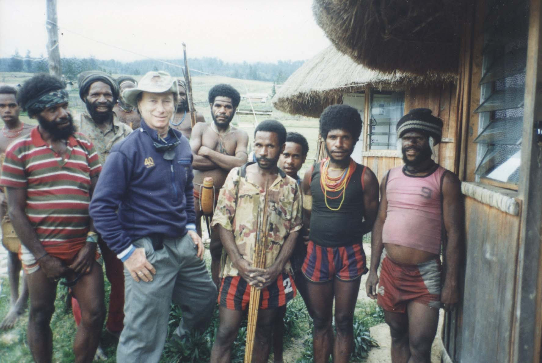 Neville Shulman with the Dani tribes people of Irian Jaya (now Western Papua), New Guinea in November 1996, prior to climbing to the summit ridge of Mt Carstenz Pyramid (4,884 metres) the highest mountain in Australasia..